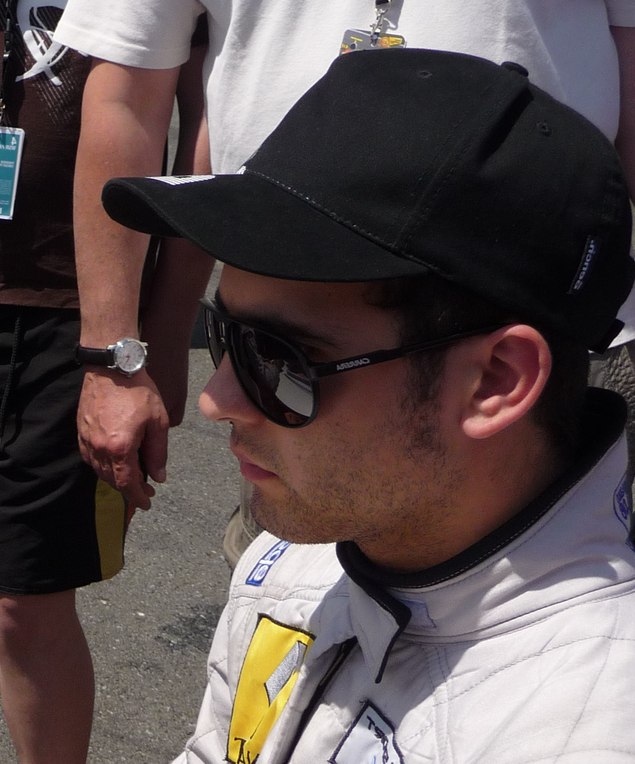 Bruno Méndez, Pit walk, 2010 Brno World Series by Renault -10 -5 -3 -2 ◄ ► +2 +3 +5 +10